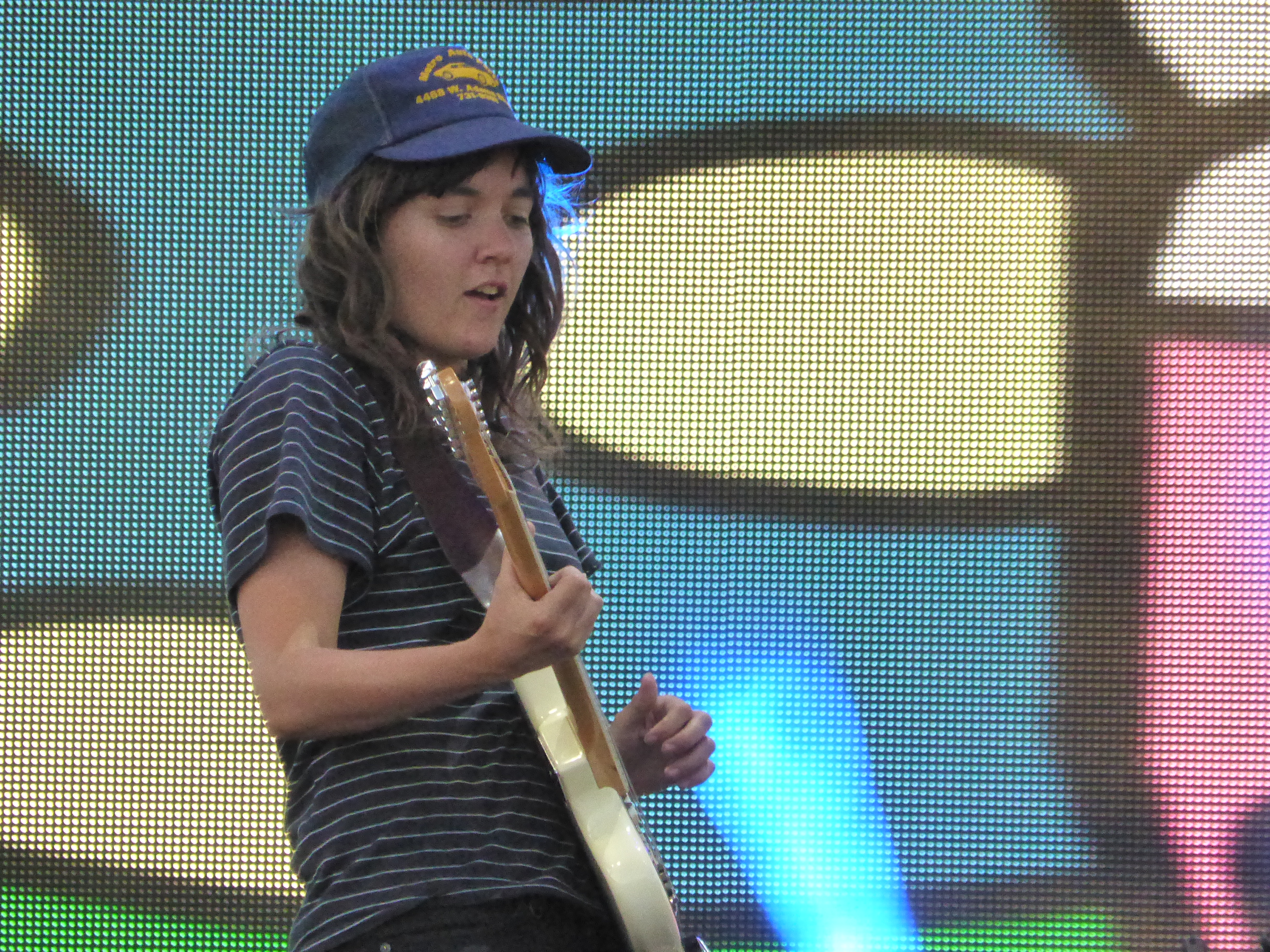 Barnett performing at Coachella in 2016